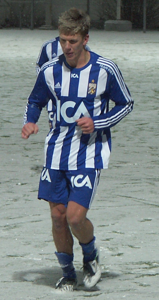 Swedish football player Pontus Wernbloom of IFK Göteborg, Swedish pre-season 2009. Joins dutch side AZ Alkmaar during summer 2009.